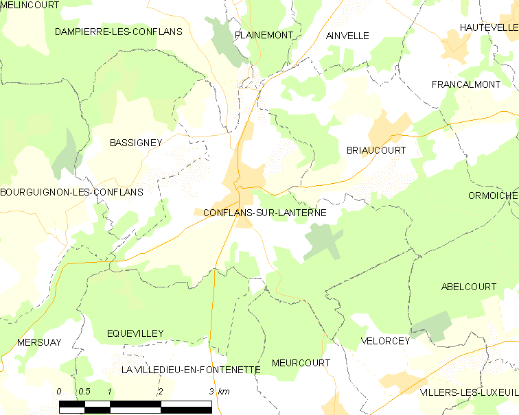 Map of French municipality